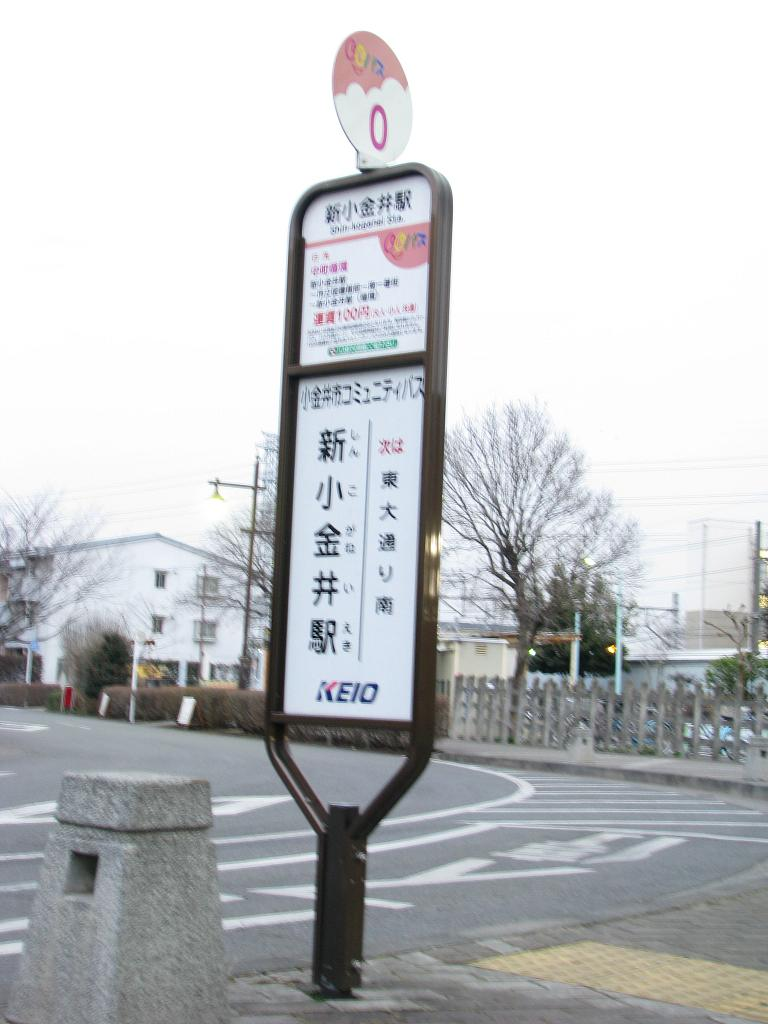 Shin-Koganei Station (新小金井駅), Koganei C, Tokyo M.